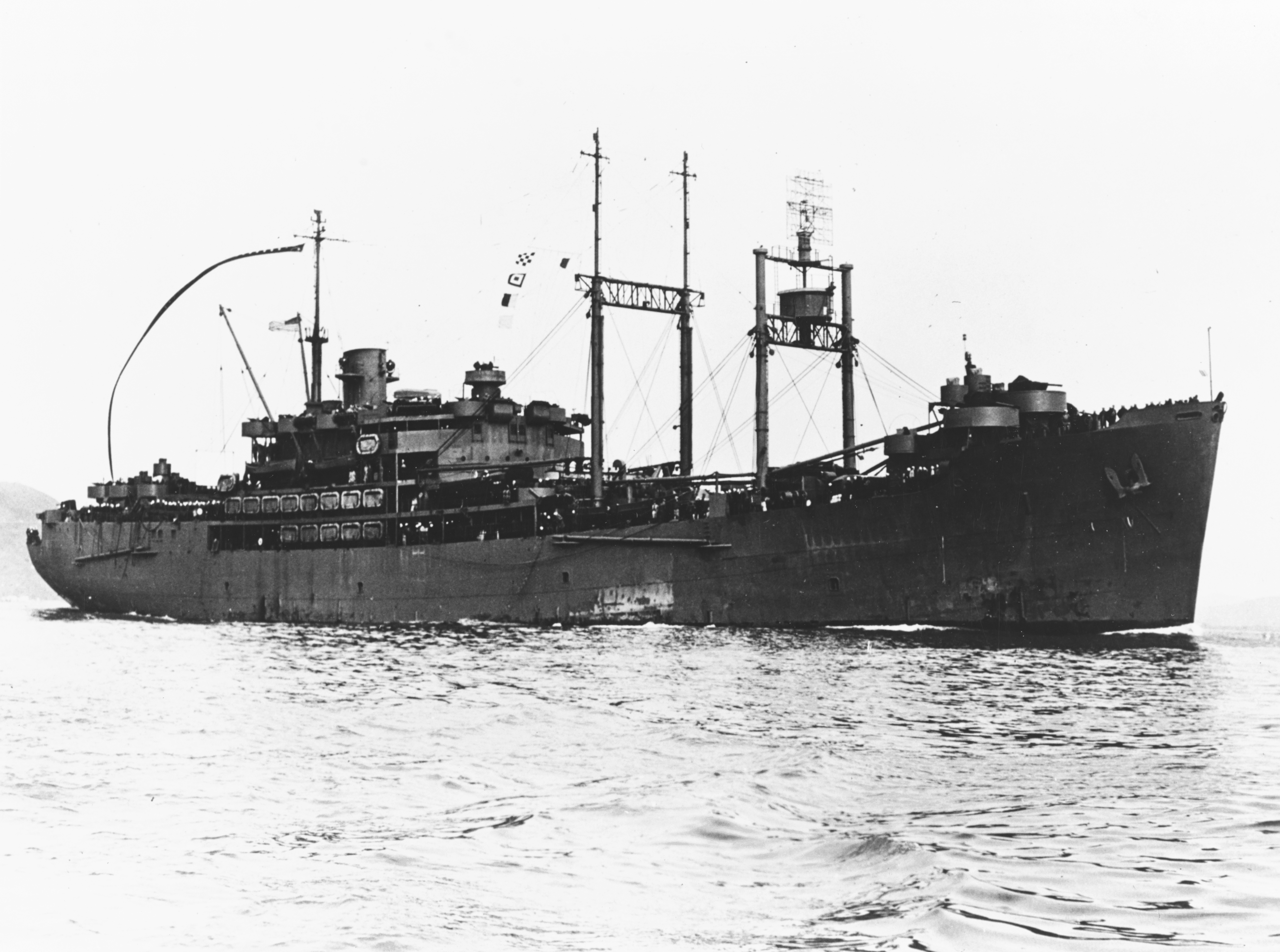 The U.S. Navy submarine tender USS Euryale (AS-22) flying her long "homeward bound" pennant, as she arrives off San Francisco, California (USA), 22 February 1946.